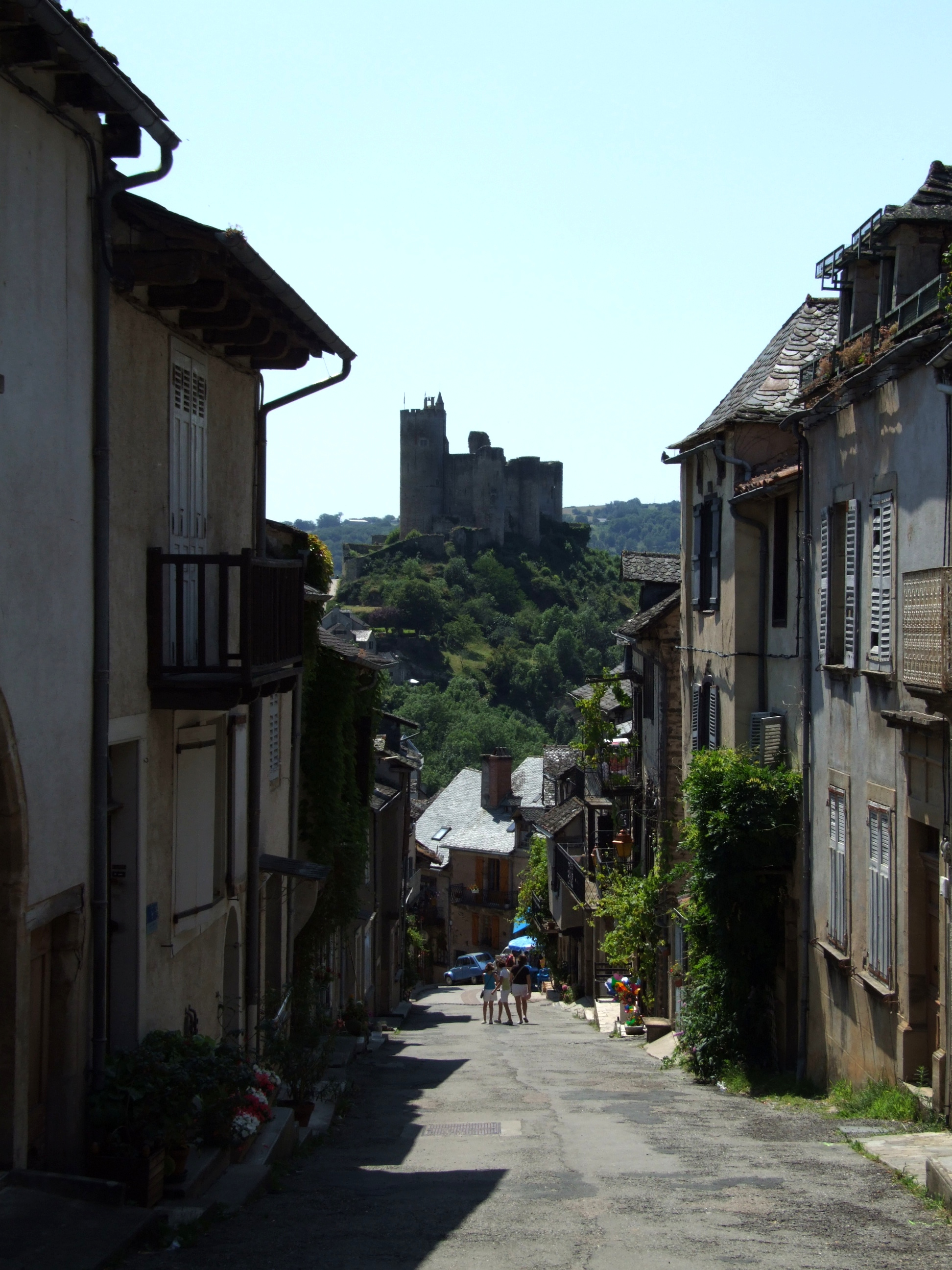 Najac, Aveyron, FRANCE